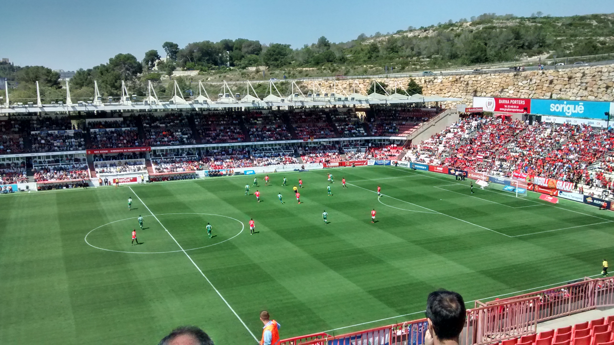 Match Nàstic 0:0 CD Leganés, 16th May 2016, Nou Estadi de Tarragona